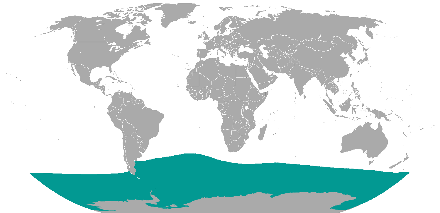 Southern Elephant Seal (Mirounga leonina) range